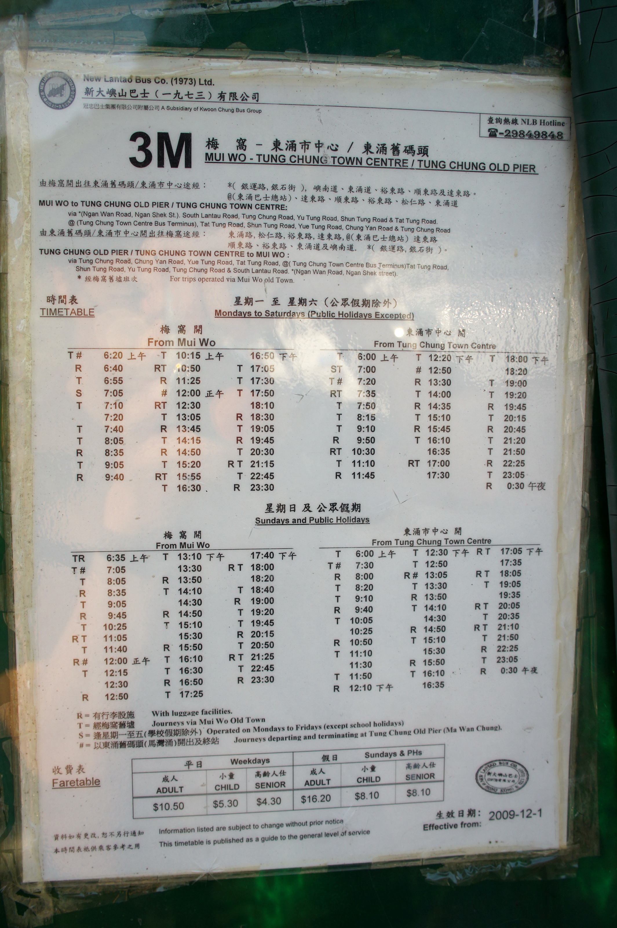 A timetable (2009 Dec) posted at the old NLB Route 3M Tung Chung Old Pier Bus Terminal, Tung Chung, New Territories, Hong Kong.